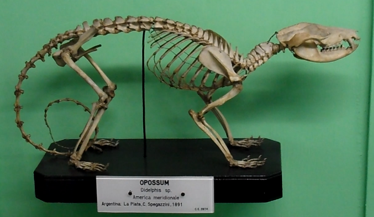 Opossum skeleton on display in the Natural History Museum of Genoa